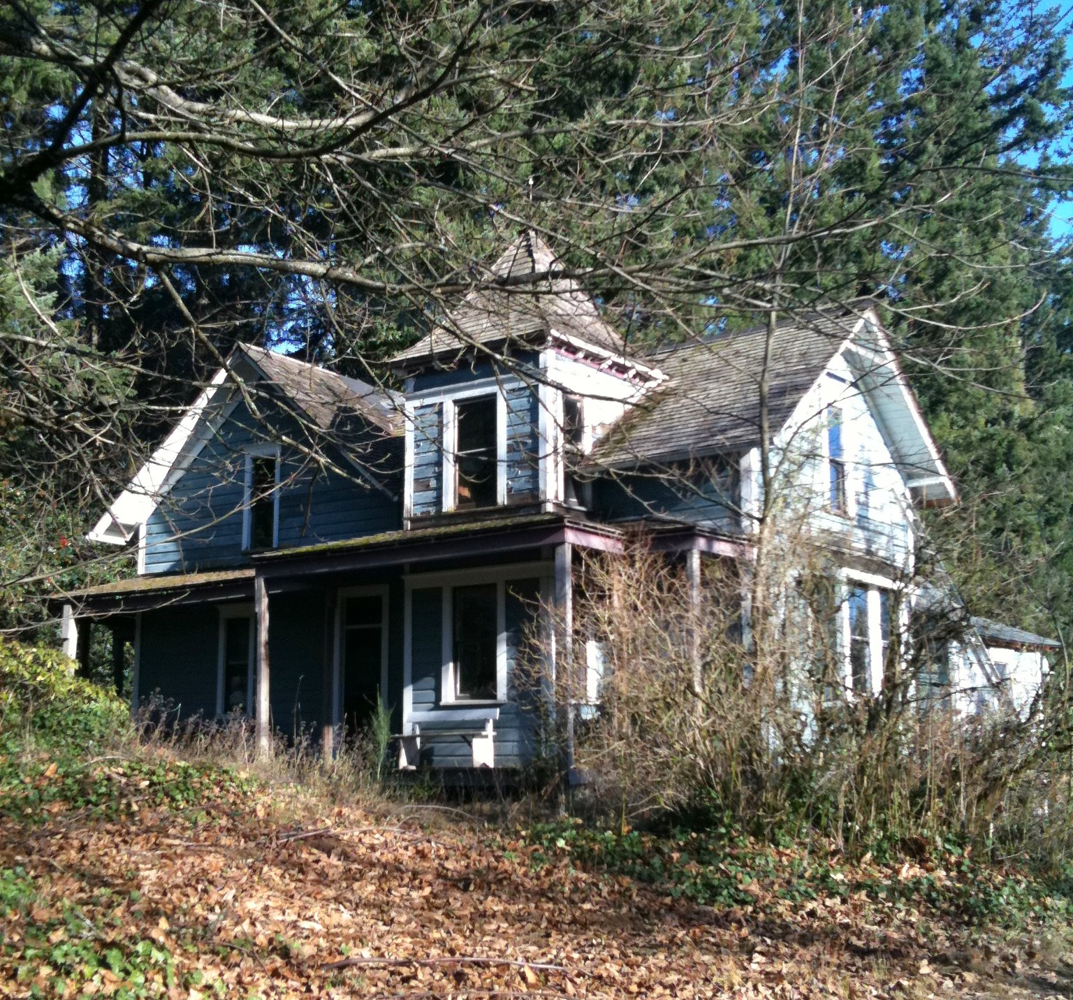 The historic Andreas Graf House (built ca. 1885), located at 44222 Southeast Loudon Road in Corbett, Oregon, United States, is listed on the US National Register of Historic Places.